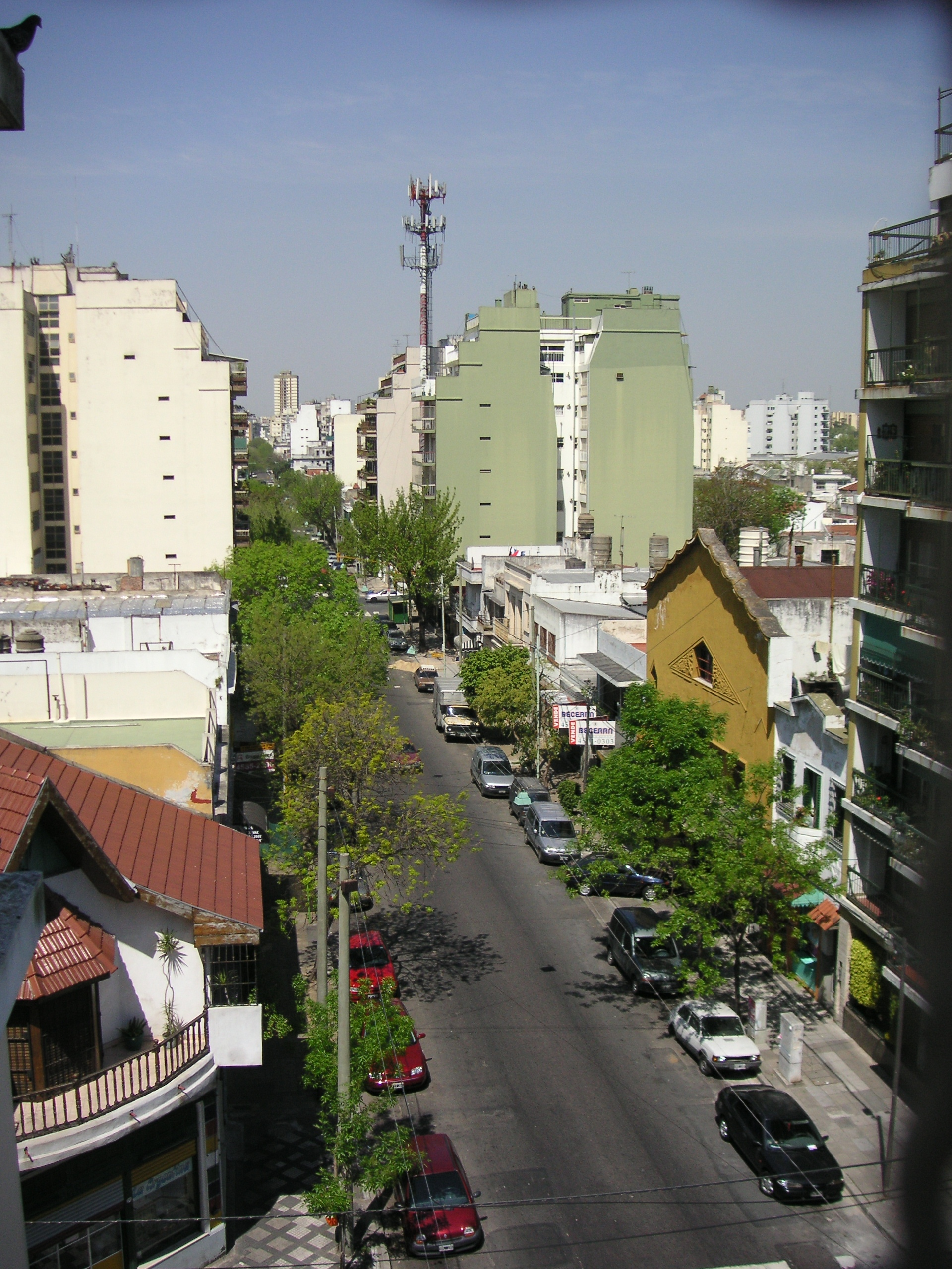 View from the corner of José Artigas and Alejandro Magariños Cervantes streets, in the Villa Mitre section of Buenos Aires.